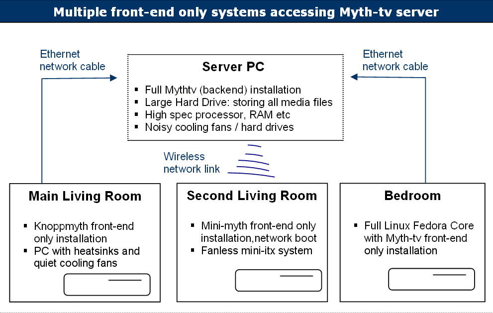 Diagram of a possible setup. The central server runs the myth-tv backend. There are 3 different units spread around the house using different hardware components but all running a Myth-tv front-end to access the media files on the central server.